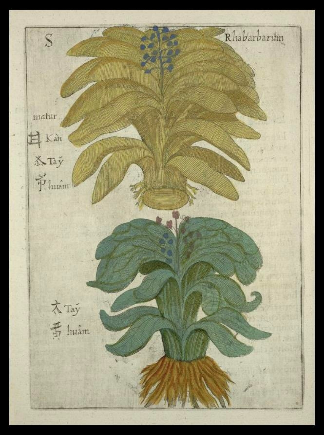 One of the earliest natural history books about China. Jesuit Missionary author. (obviously includes some non-Chinese {and non-floral} species)